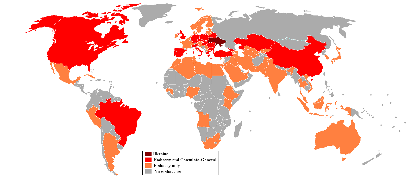 Diplomatic relations of Ukraine